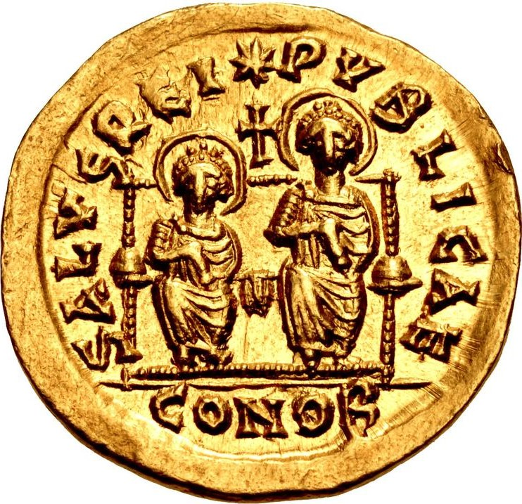 Leo II and Zeno. Solidus (4.51 gm). Constantinople mint. Rv.: SALVS REI-PVBLICAE, Leo and Zeno nimbate, enthroned facing, each holding mappa; star and cross above; CONOB. RIC X 803; Depeyrot 98/1; DOCLR 600; MIRB 1a.